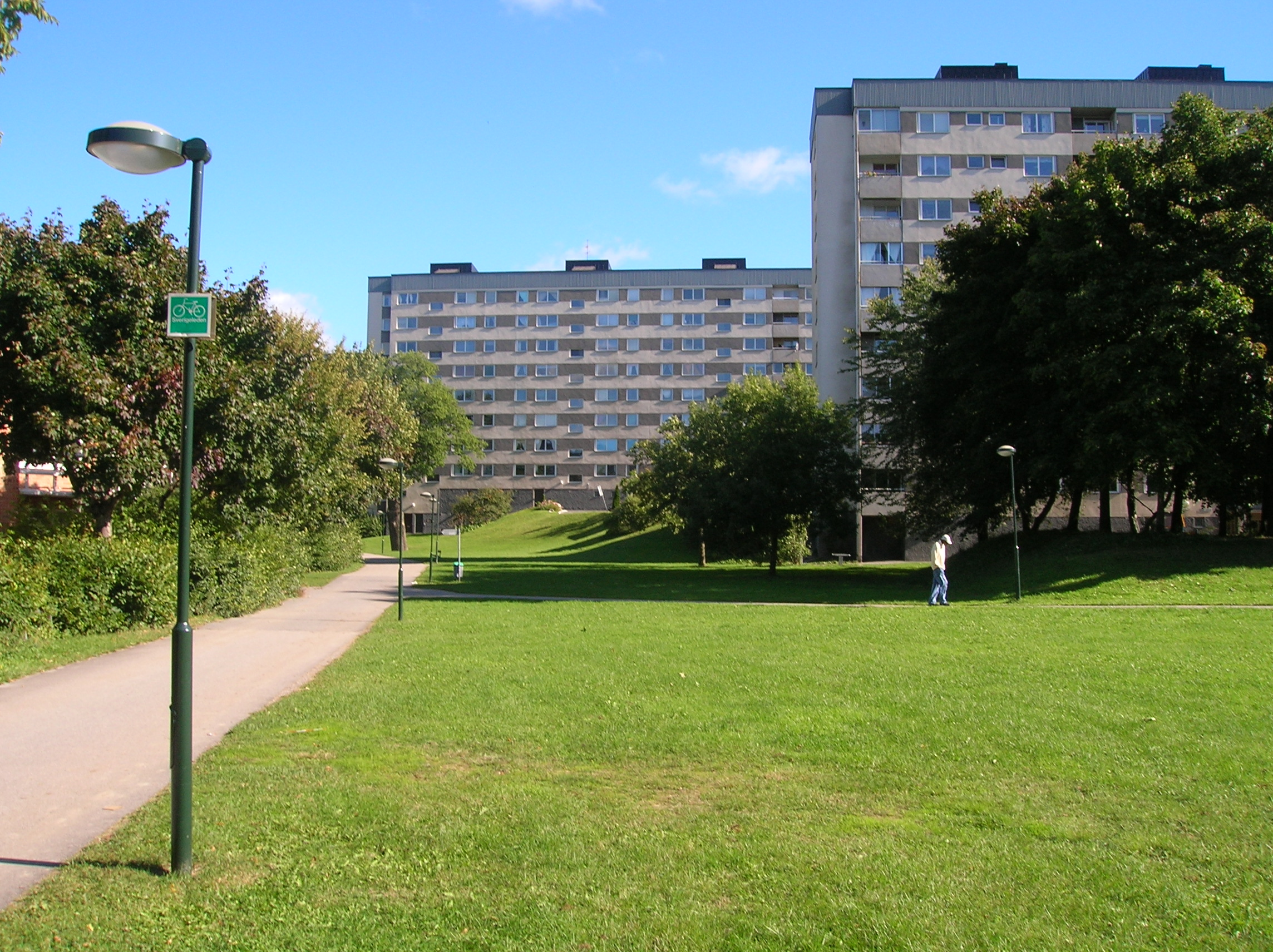 The 'Par Bricole' apartment blocks (1964) in Bredängsvägen, Bredäng, Stockholm, Sweden. Architect: Carl-Evin Sandberg. Bredängsparken (the Bredäng Park) is in the foreground.